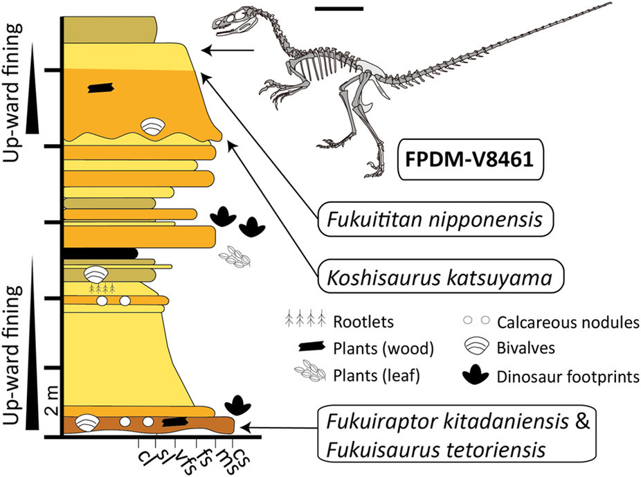 Skeletal silhouette of FPDM-V8461 and the stratigraphic section of the Lower Cretaceous Kitadani Formation in the Kitadani Dinosaur Quarry. Skeletal silhouette shows preserved bones in dark grey and missing bones in light grey. Positions of notable fossils including FPDM-V8461 are shown in the stratigraphic section. Scale bar = 50 mm. Abbreviations: cl, claystone; sl, siltstone; vfs, very fine sandstone; fs, fine sandstone; ms, medium sandstone; cs, coarse sandstone.